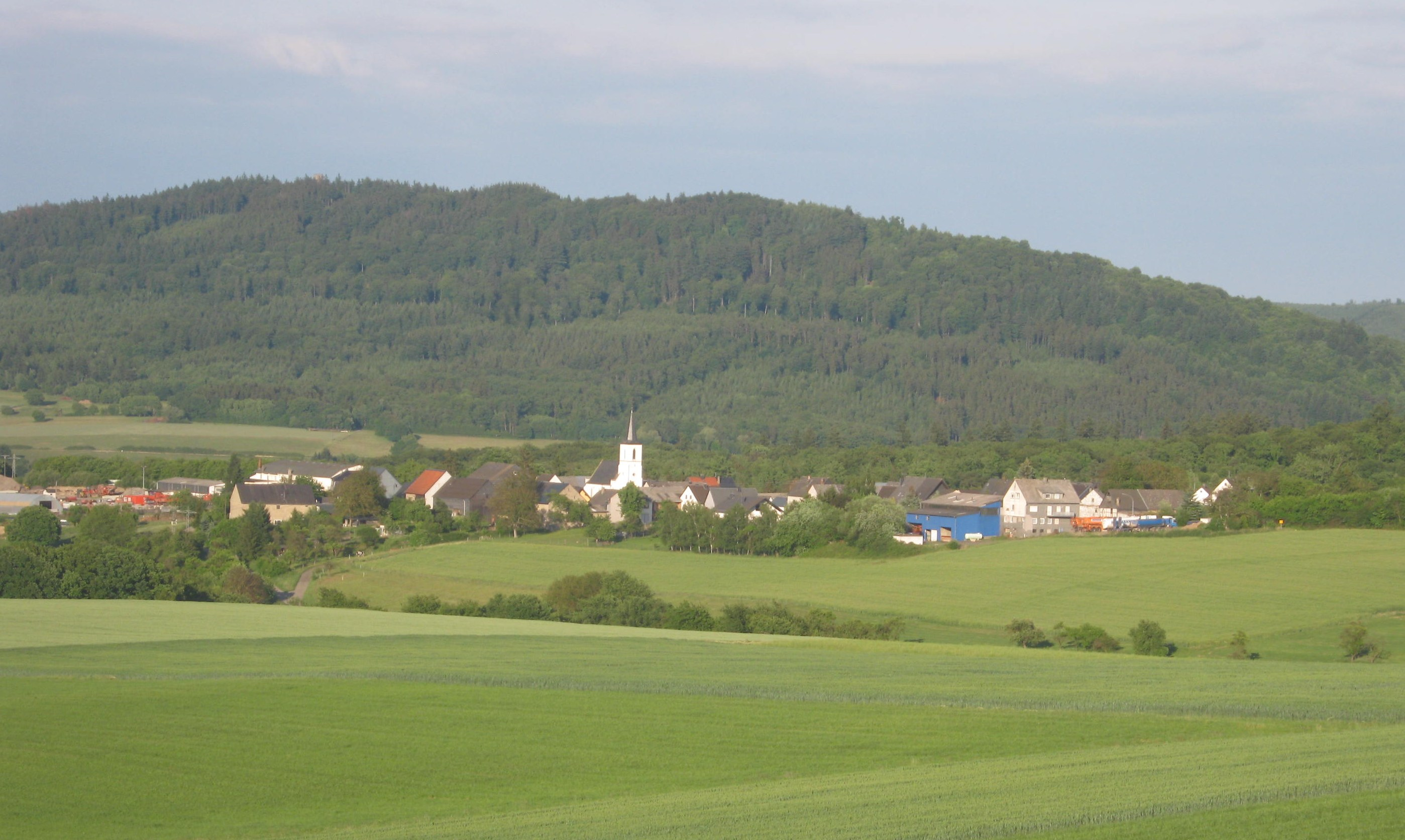 Schlierschied/Hunsrück